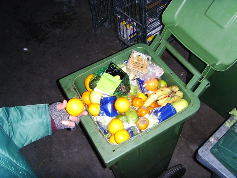 Dumpster diving in Stockholm, Sweden